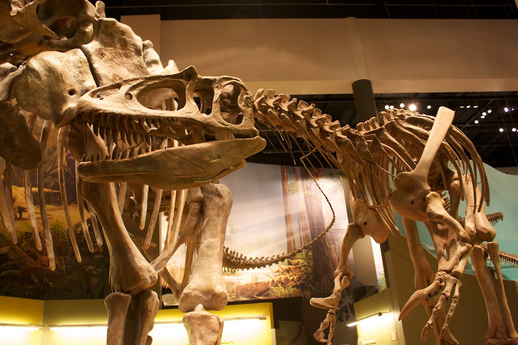 Also Rawr